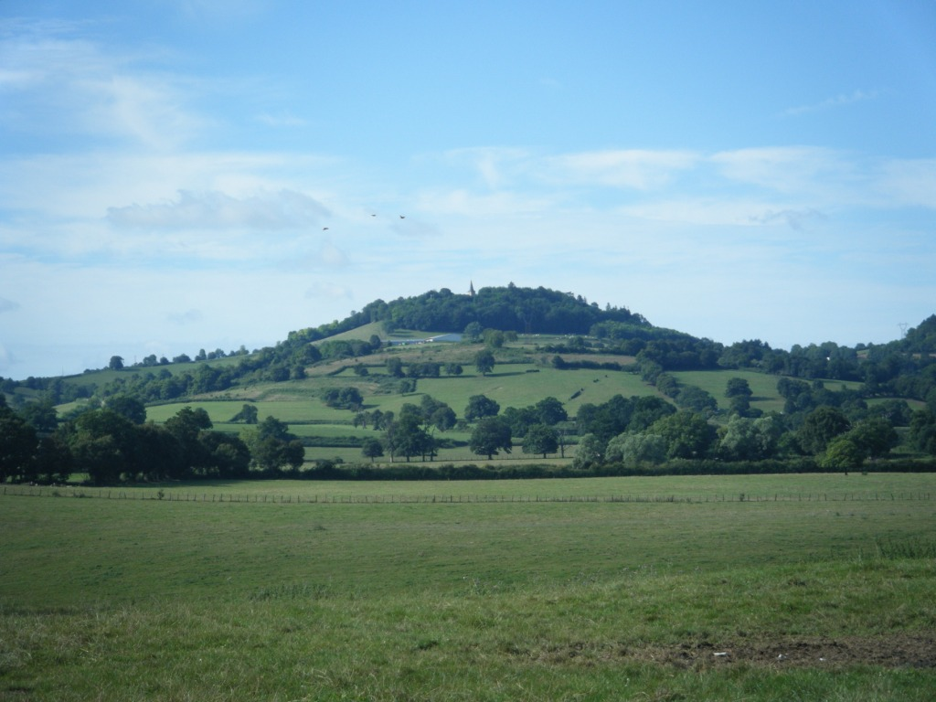 View of Montenoison from Champlin